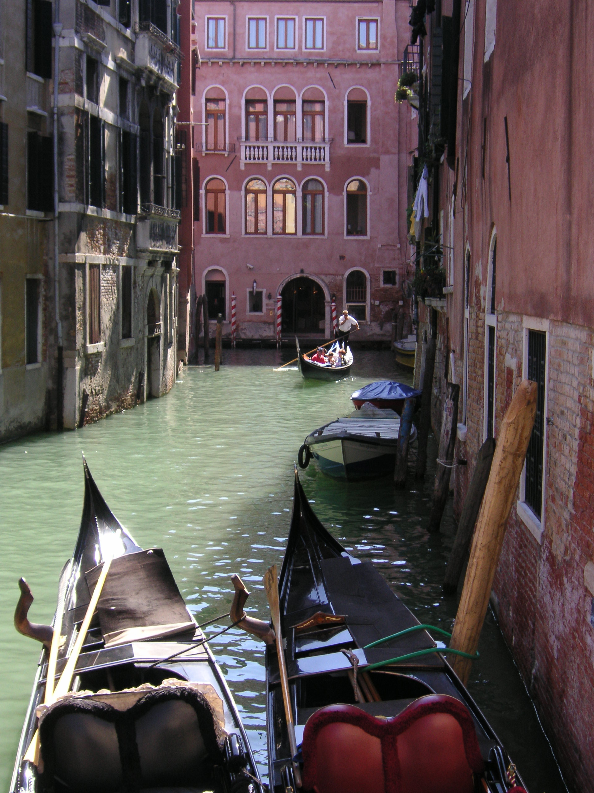 Canal in Venice, Italy